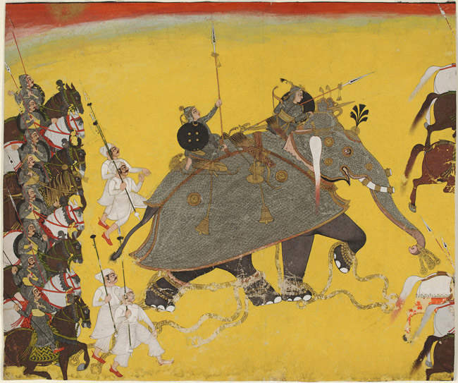 ndian and Himalayan Art Elephant in Battle Made in Kota, Rajasthan, India c. 1750-70 Artist/maker unknown, India Opaque watercolor, gold, and silver on paper 15 3/4 x 18 7/8 inches (40 x 47.9 cm) Currently not on view 1994-148-394 Stella Kramrisch Collection, 1994 Label The Indian elephant was used as a primary battle engine for over two thousand years across the subcontinent and was valued by rulers far above horses. In this painting, a heavily armored battle elephant rampages across a bright yellow Weld amid troops mounted on horses. On his back are two soldiers armed with spears, arrows, and swords; the foremost is the mahout who wields the elephant goad that could give a trained elephant over a hundred commands by gentle touches to different parts of the animal's body. The elephant has chains on its legs and carries more in its trunk. They would have served as flails to attack the enemy infantry. At some point after its making, this vivid painting appears to have been cut down from a larger work and an apparently spurious inscription was added on the back.